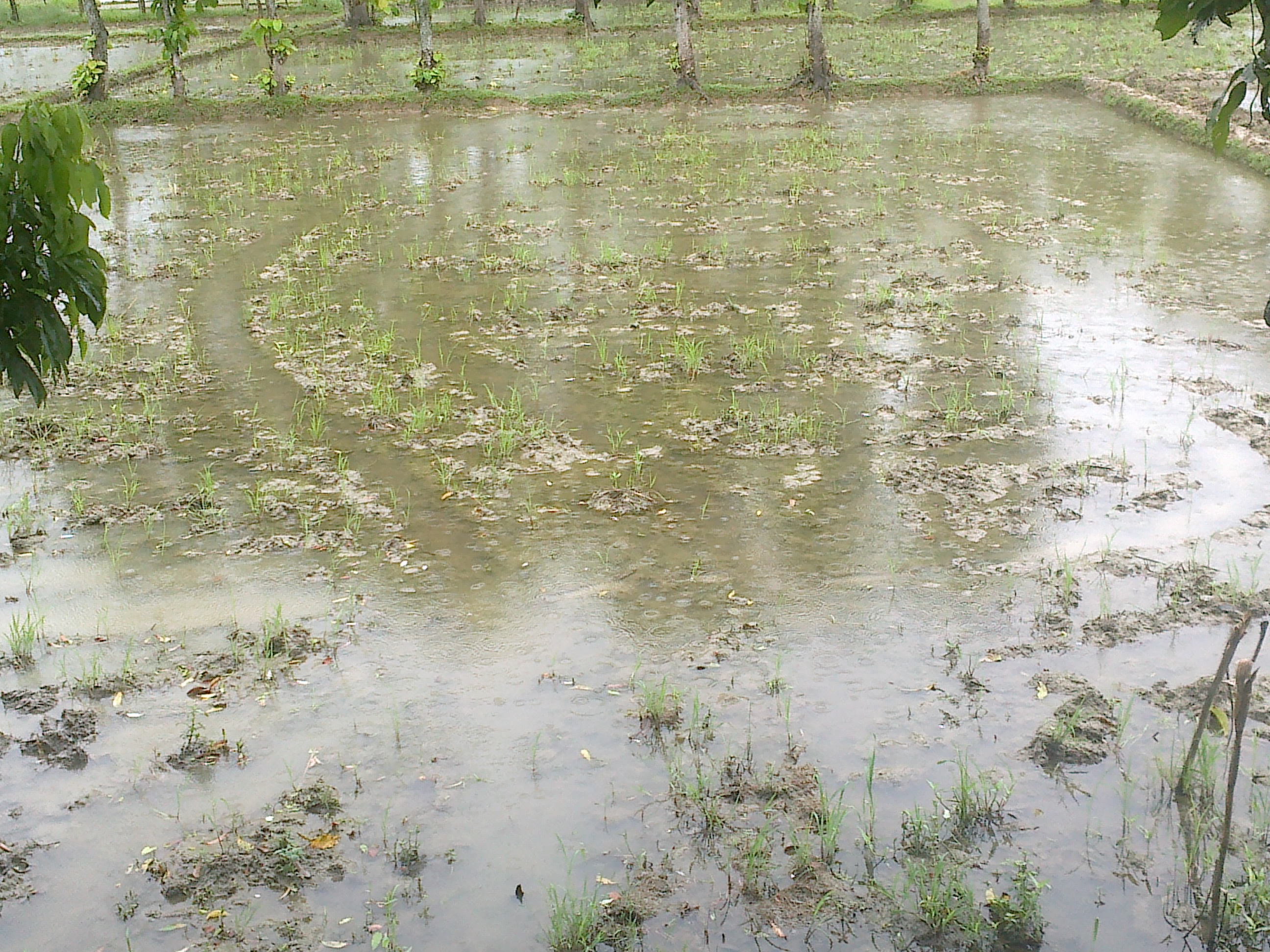 Farmland ploughed and irrigated ready for paddy cultivation